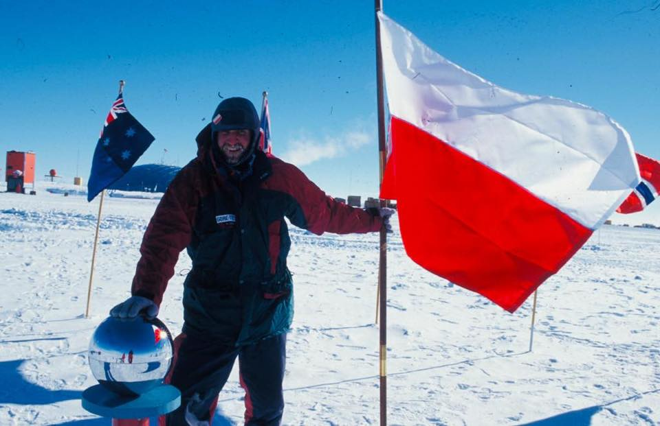 Marek Kamiński is putting Polish flag on the South Pole